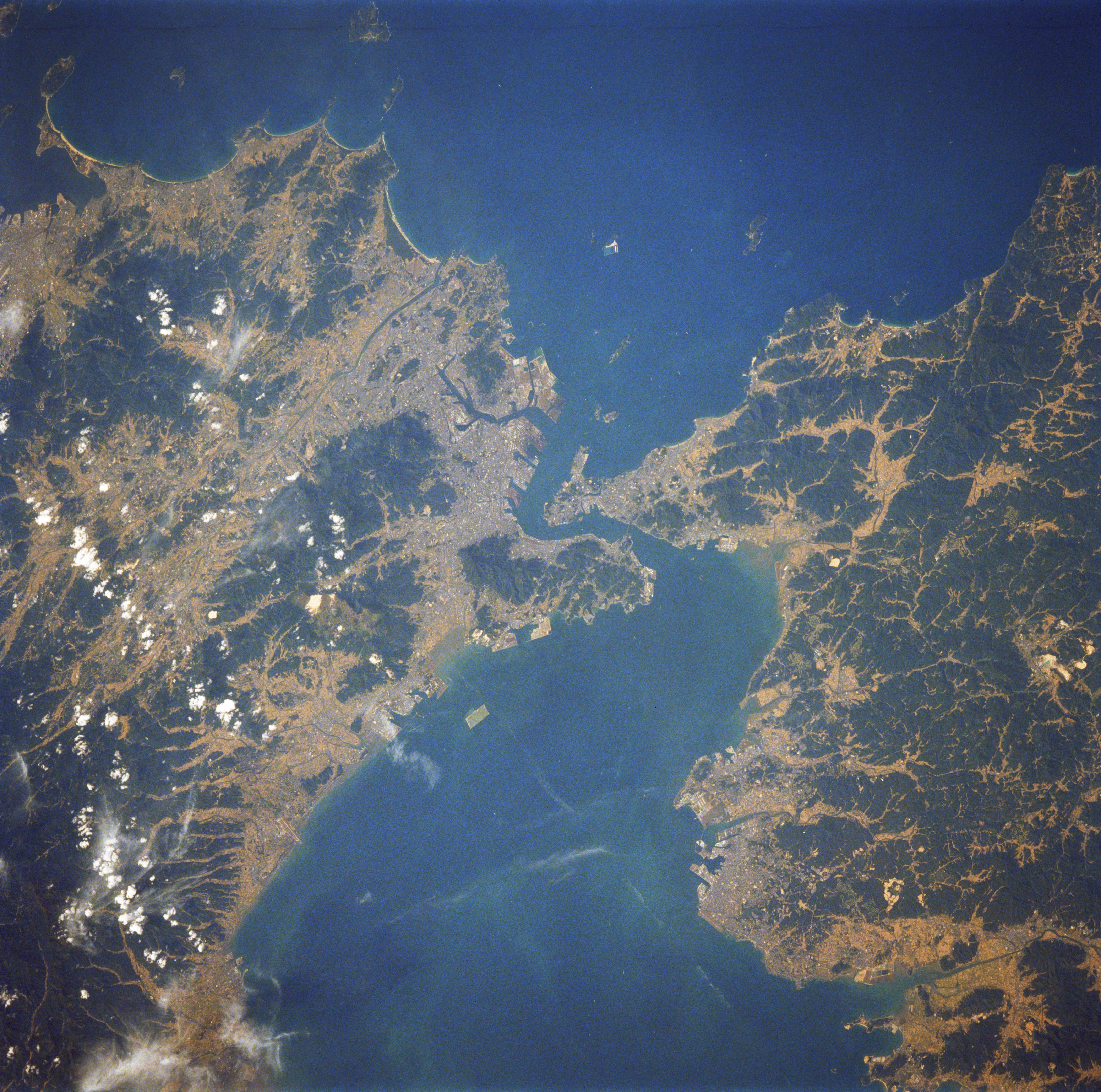 The Kanmon straits from space, with Kyushū (the City of Kita-Kyushū) on the left and Honshū (the City of Shimonoseki) on the right.